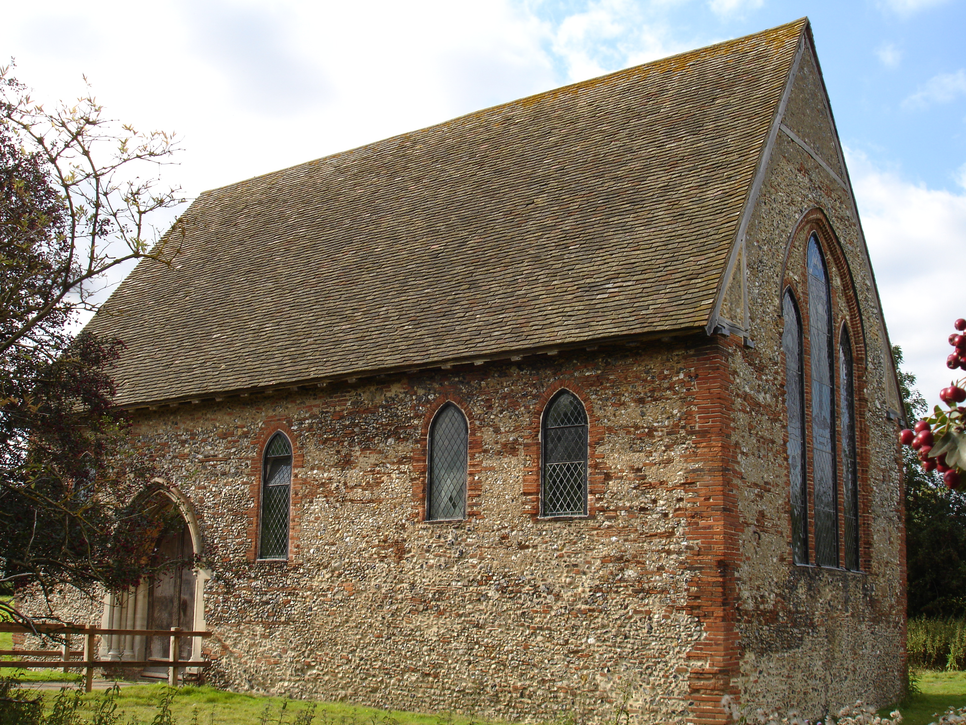 Photograph of the Parish Church of St Nicholas, the capella ante portas of Coggeshall Abbey